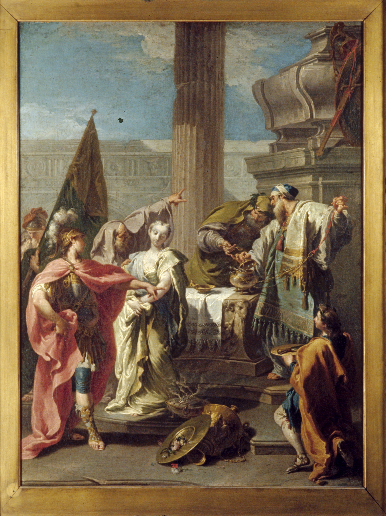 The tragic moment depicted is from the end of the Trojan War. According to legend, the ghost of the Greek hero Achilles demanded that the Trojan princess Polyxena be sacrificed at his tomb. Achilles's son, with the feathered helmet, is leading the sacrifice. According to the Roman poet Ovid, Polyxena "kept her look of dauntless courage until the end." In visualizing this passage, the painter has depicted the young woman with a sorrowful yet dignified expression that conveys her bravery in the face of death. The ballet-like elegance of the figures is characteristic of 18th-century Venetian history painting, as is the delight in exotic elements, such as the costumes and ritual objects of the pagan priests.